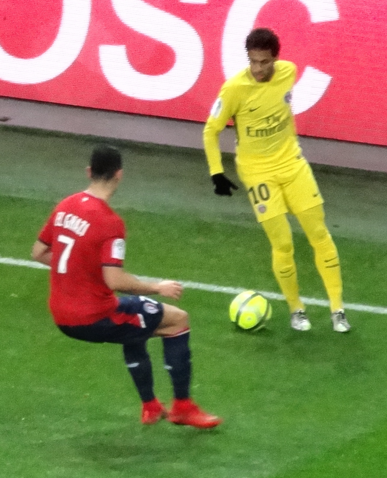 El-Ghazi vs Neymar